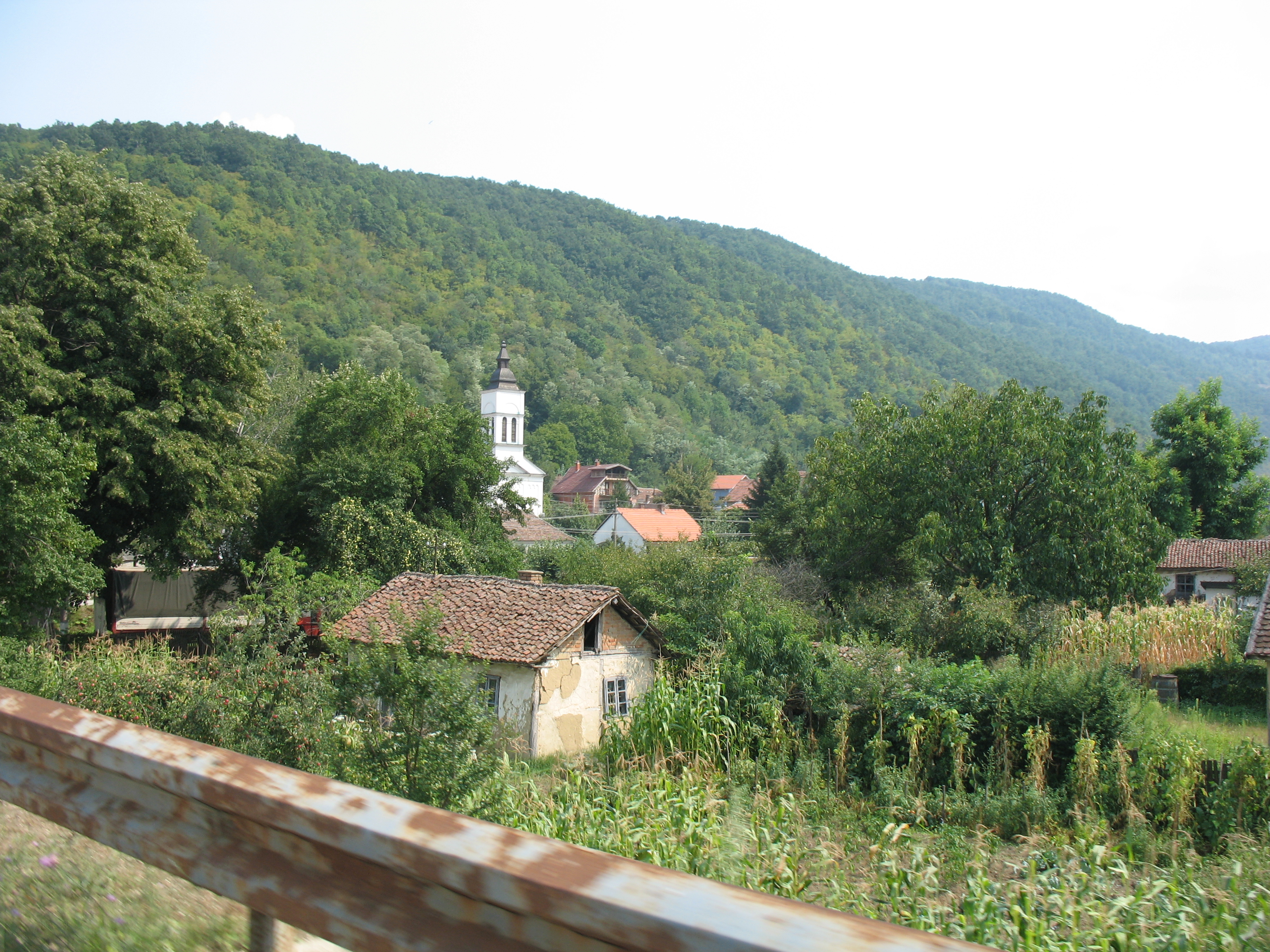 Brnjica near Golubac on Danube, Serbia.